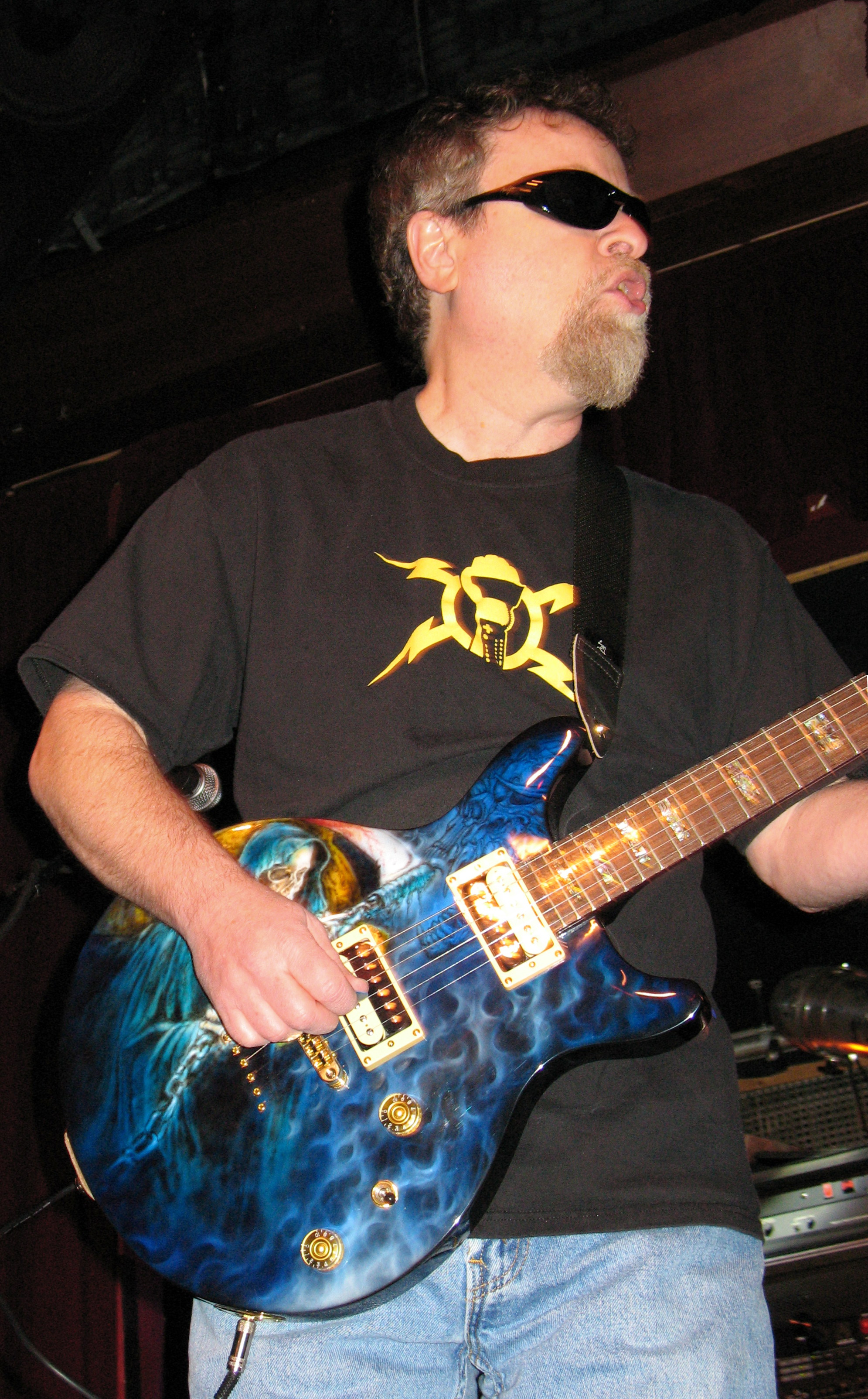 Eric Bloom, member of Blue Oyster Cult. Photograph taken at BBKing's in New York City